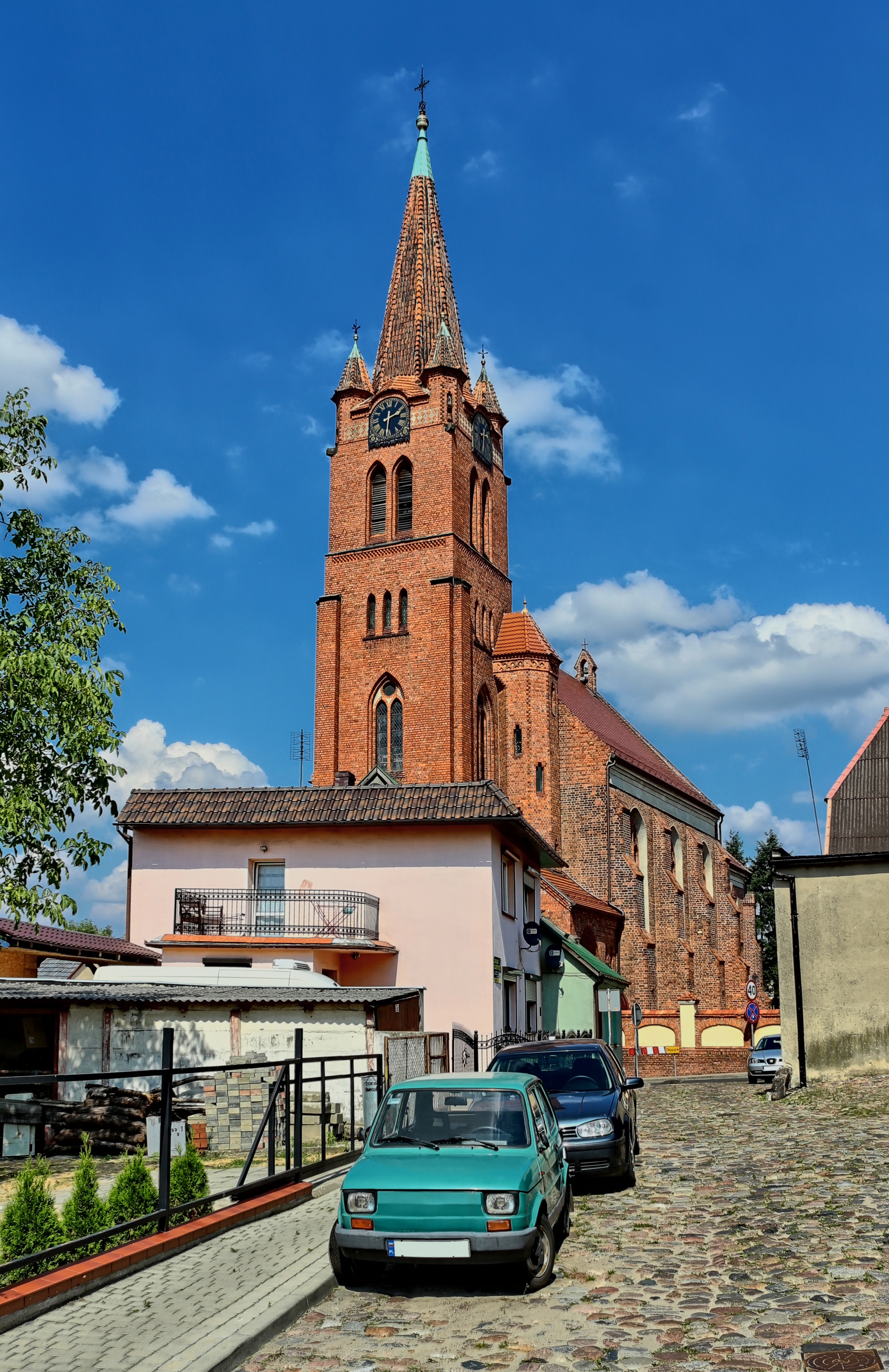 Church of the Assumption of Blessed Virgin Mary in Śmigiel